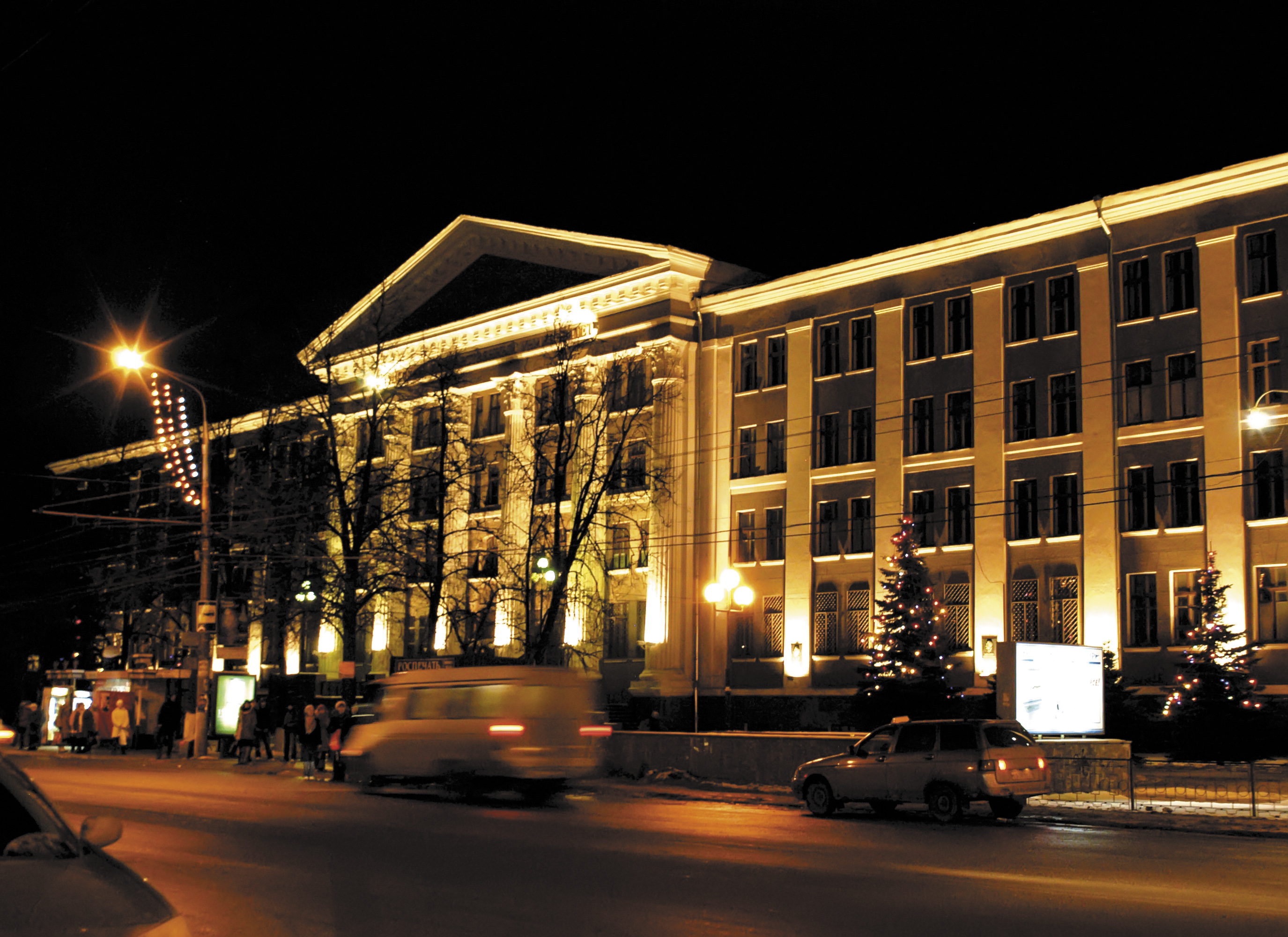 Tula State University (TSU), Tula